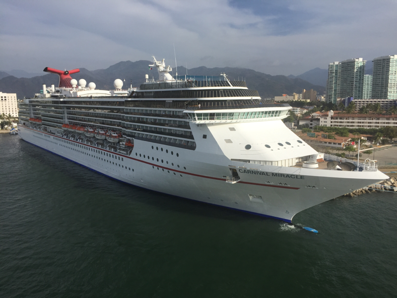 Carnival Miracle docked in Puerto Vallarta, Mexico on April 5, 2017.